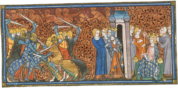 Charles III the Simple imprisoned (middle), and Raoul crowned (right). (British Library, Royal 16 G VI f. 248)